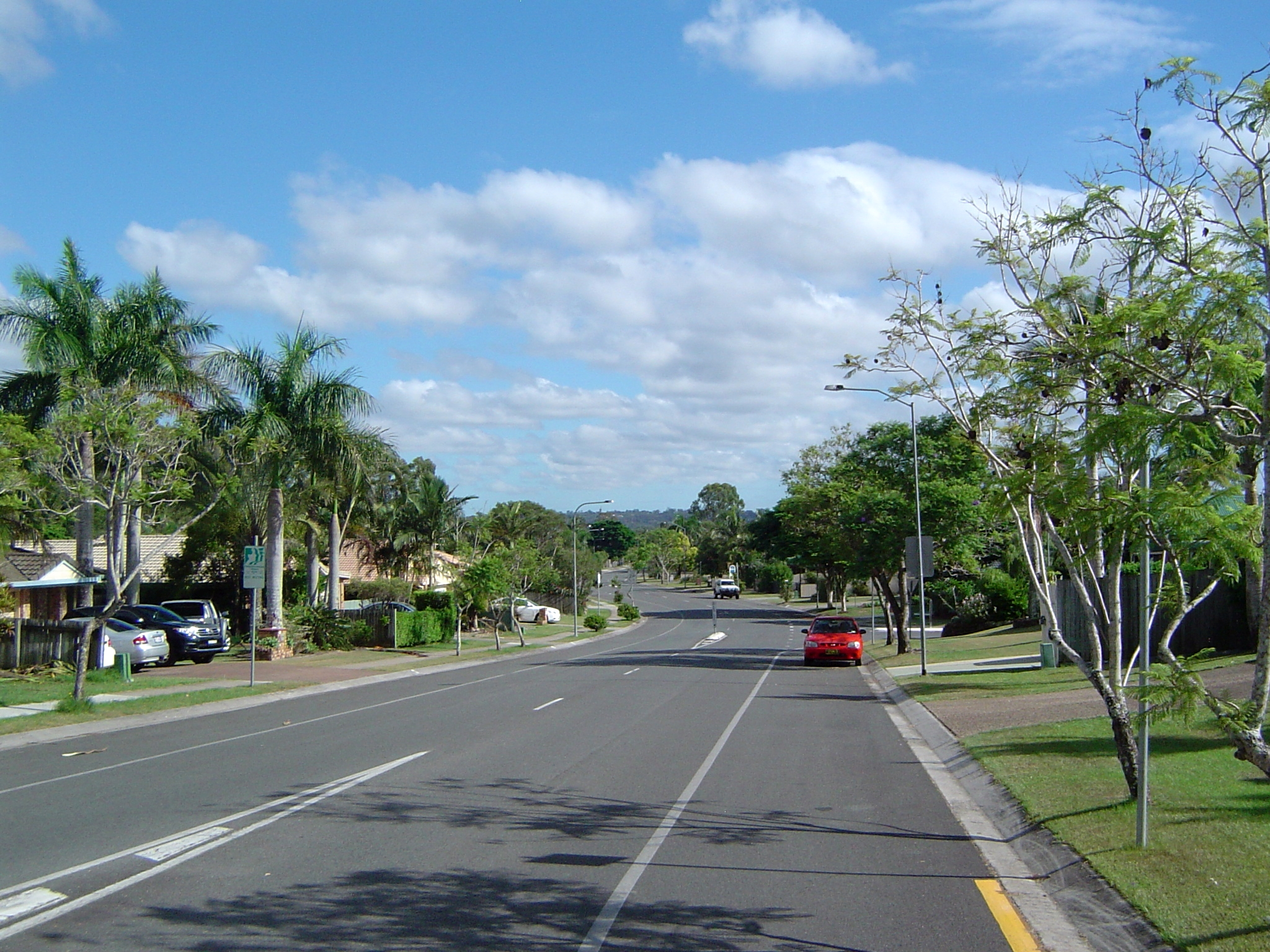 Photo of the residential street Edeanlea Drive in Meadowbrook, Logan City, Queensland, Australia.